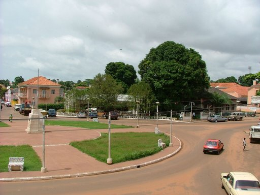 bissau